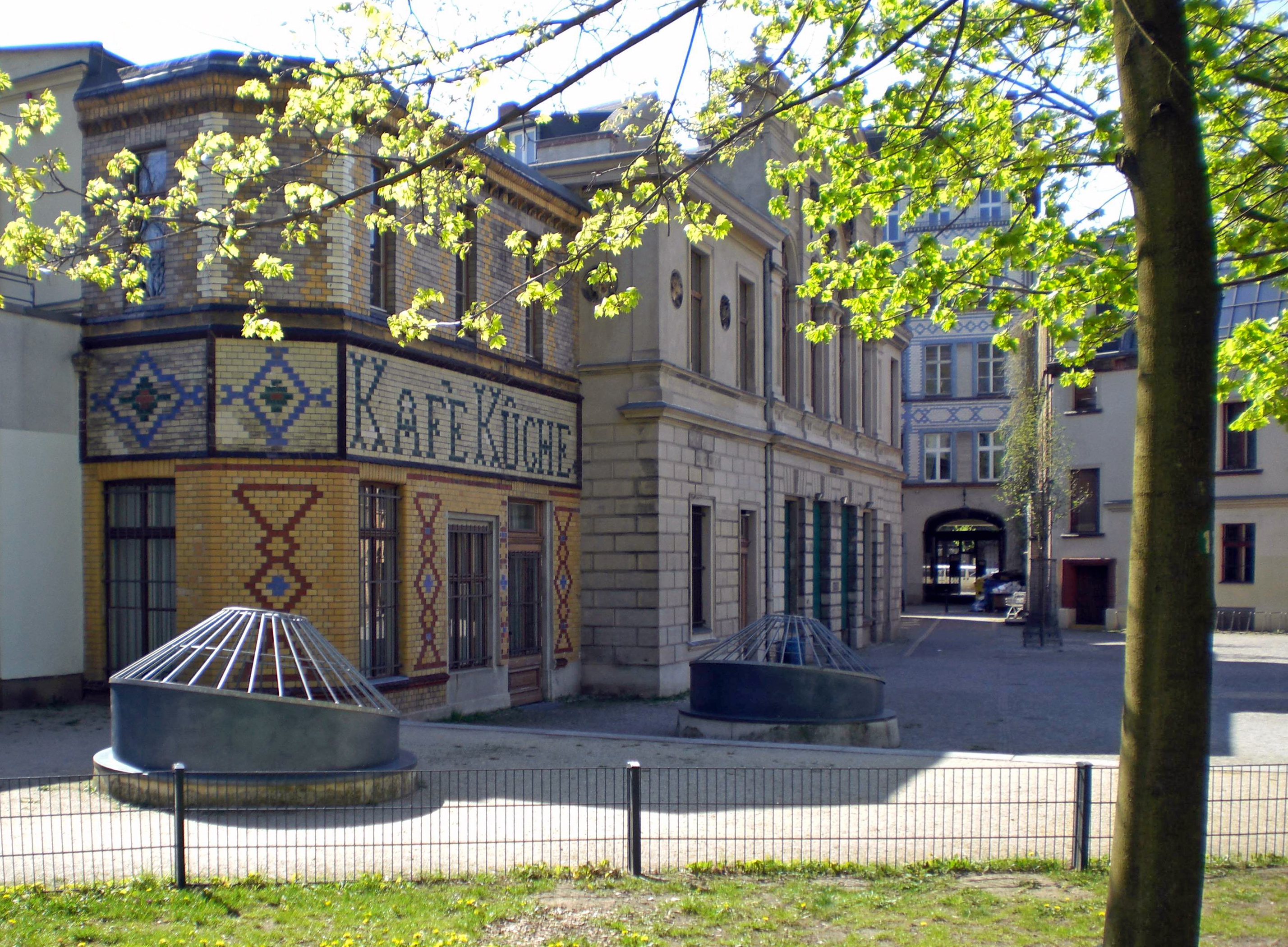 Berlin-Gesundbrunnen Luisenbad